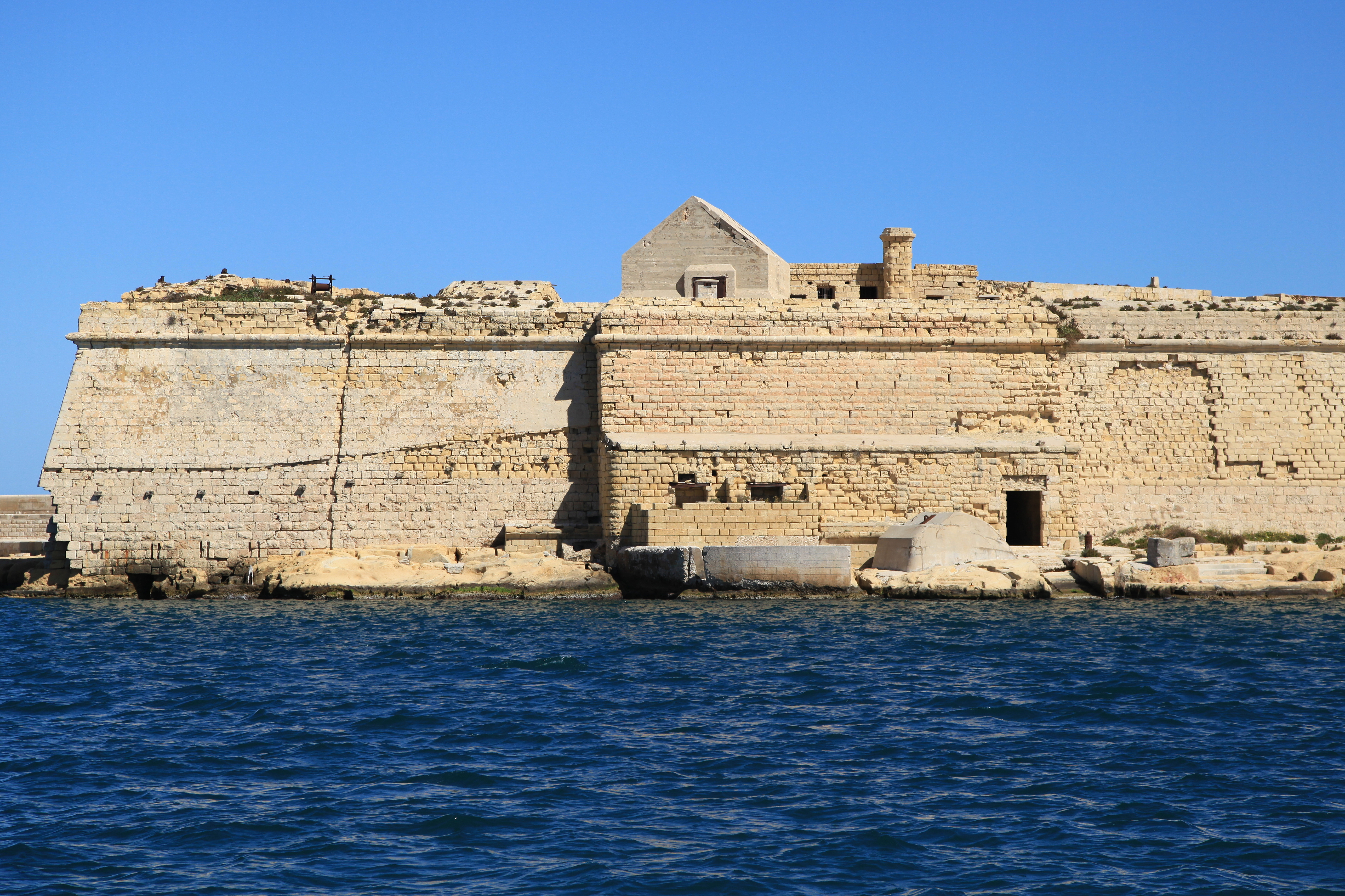 View from a Malta sightseeing two harbours cruise boat to Fort Ricasoli in Kalkara, Malta